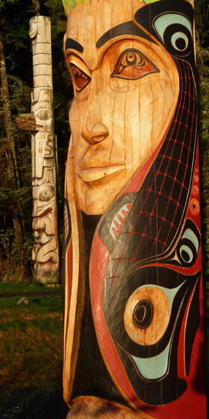 The bottom figure of the "Wooch Jin Dul Shat Kooteeya" or "Holding Hands Centennial"-totem pole at Sitka National Historical Park from Donnie Varnell, a Haida carver from Joseph's hometown of Ketchikan. Flanked by male and female salmon, she represents Mother Earth. Varnell is famous for introducing anime or comic-book style images into his totemic art.